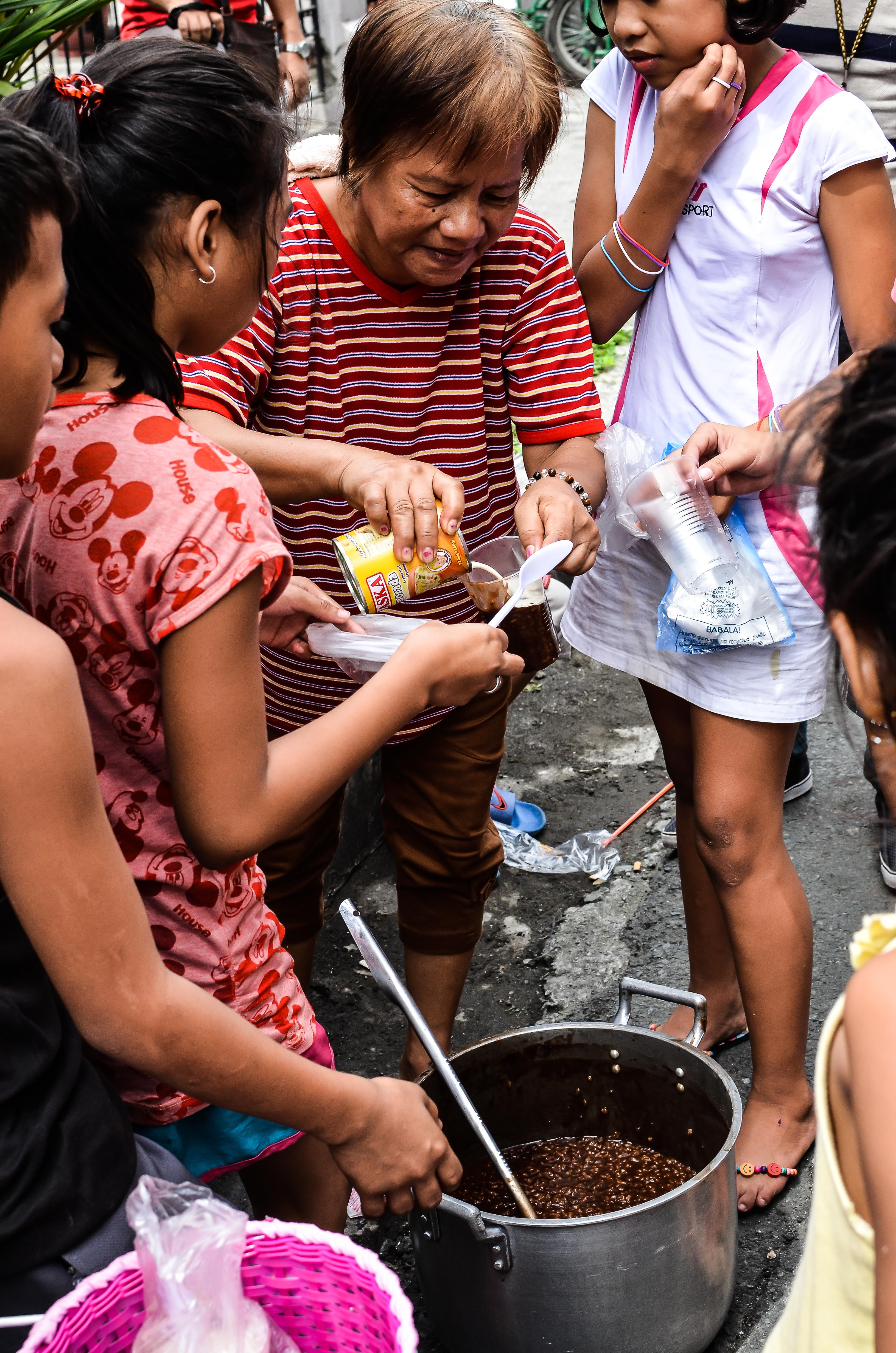 A person selling champorado.